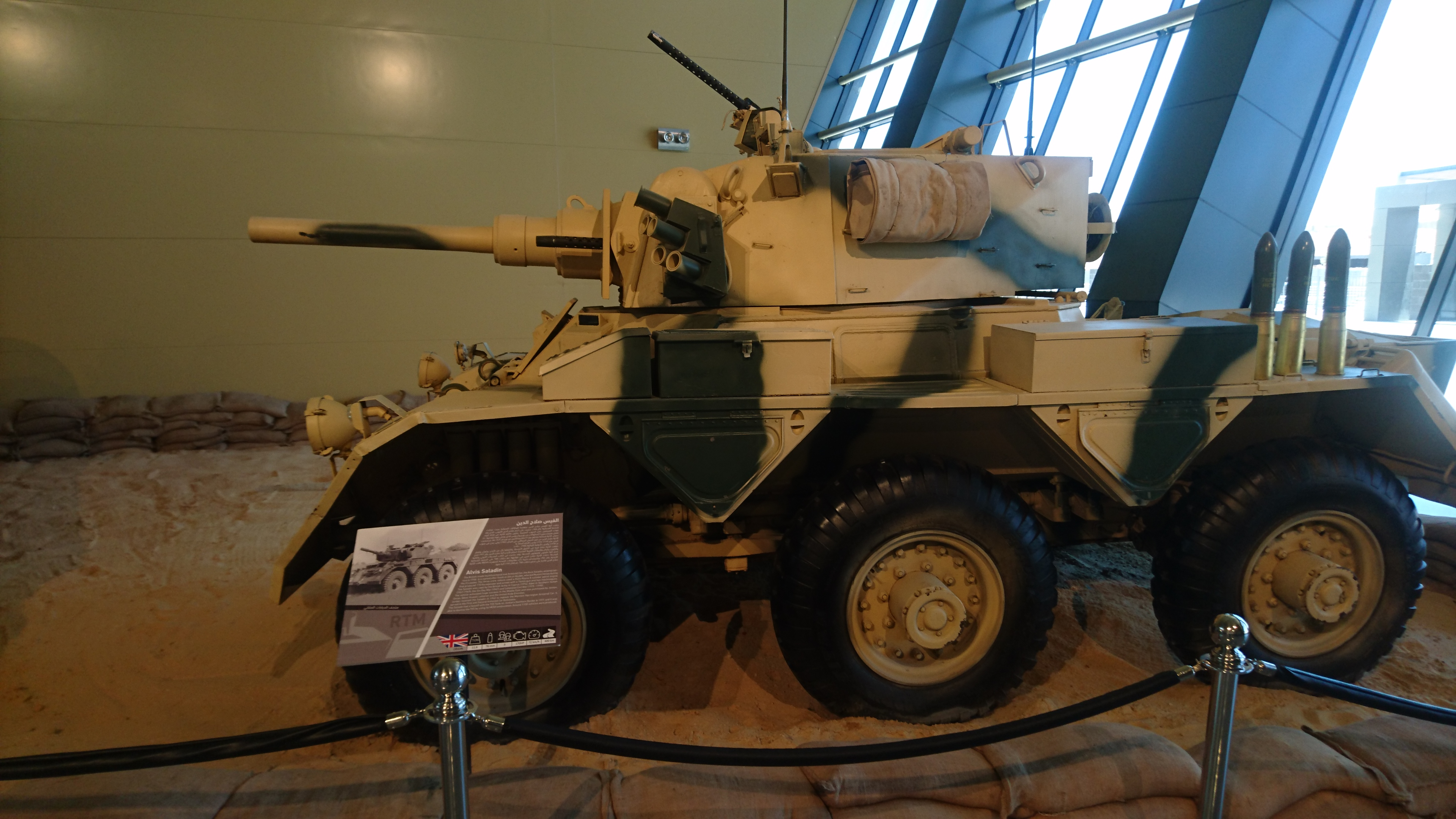 Royal Tank Museum